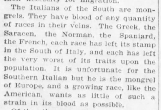 Excerpt from an editorial on immigration in the Hawaiian Star, Jan. 11, 1901.